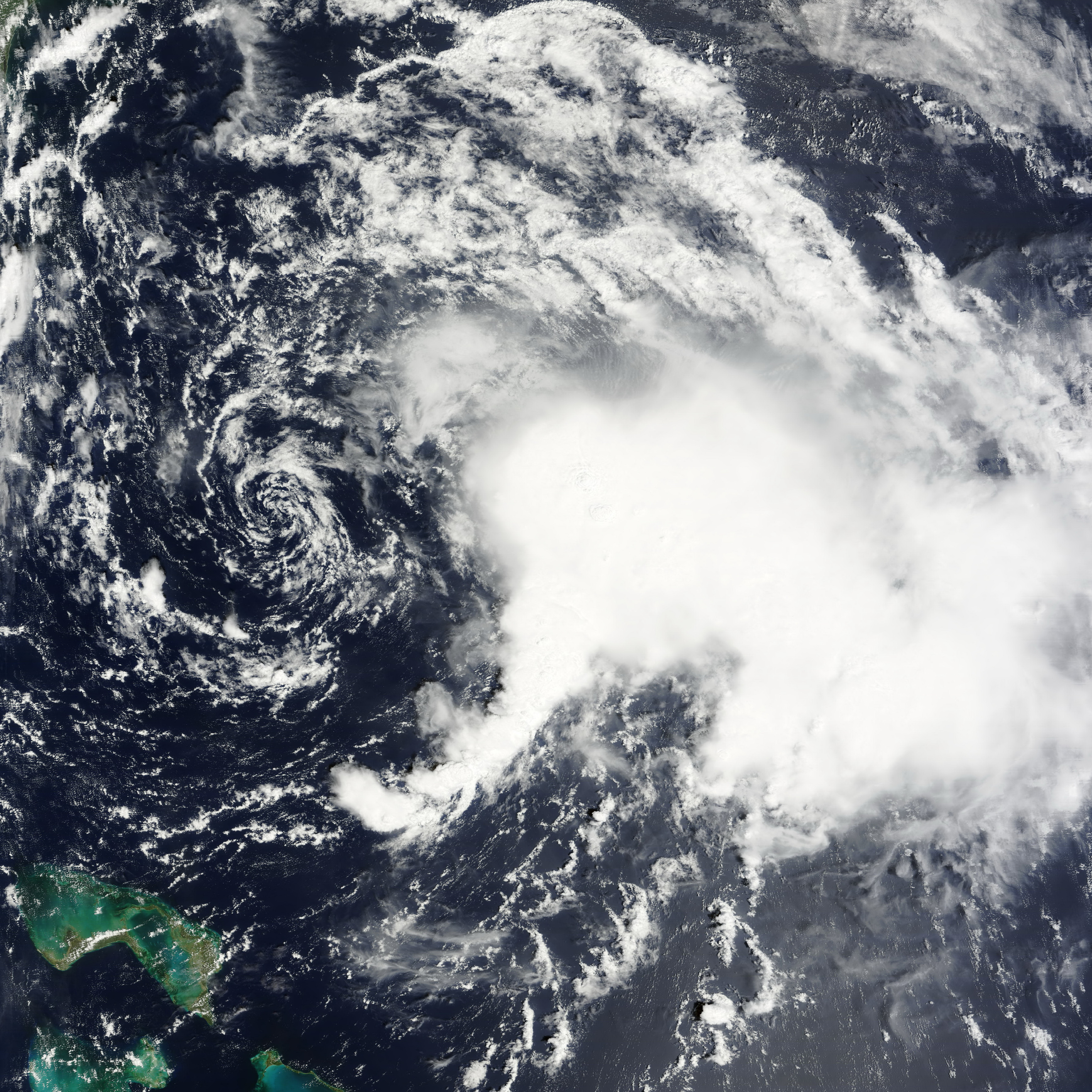 Tropical Storm Danny.